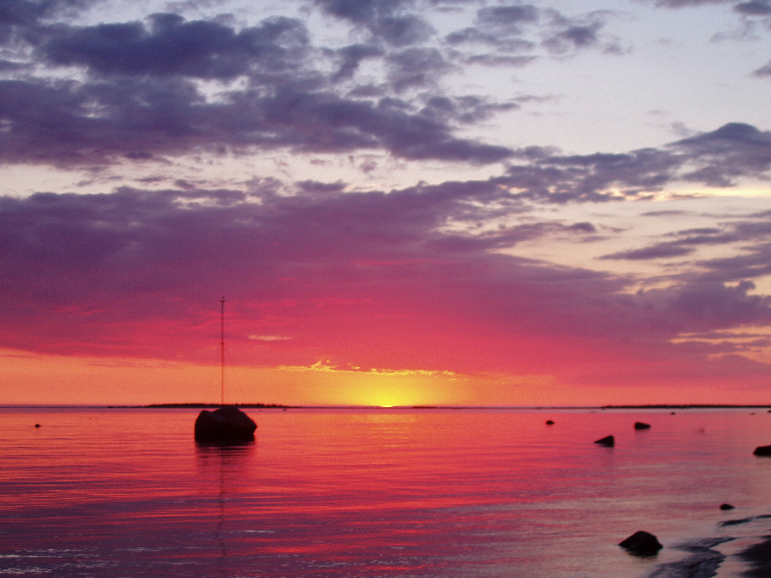 Sunset at Hiekkasärkät, Kalajoki, Finland